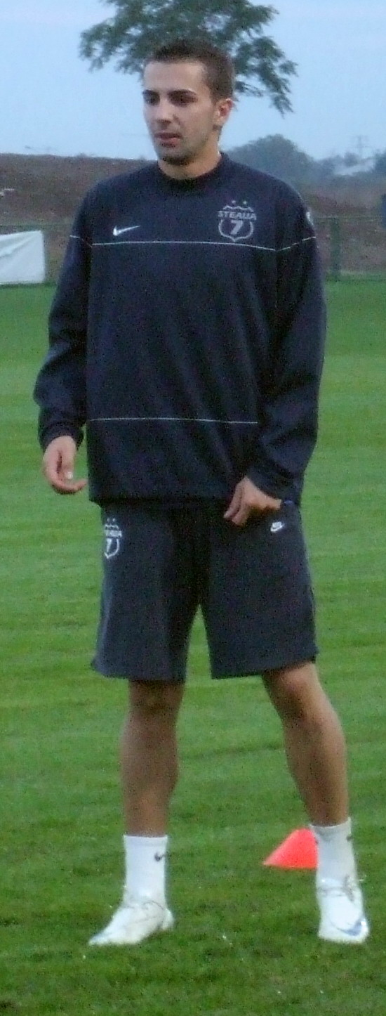 Janos Szekely